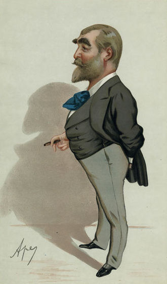 Caricature of Francis Burnand (1836-1917). Caption read "Punch".